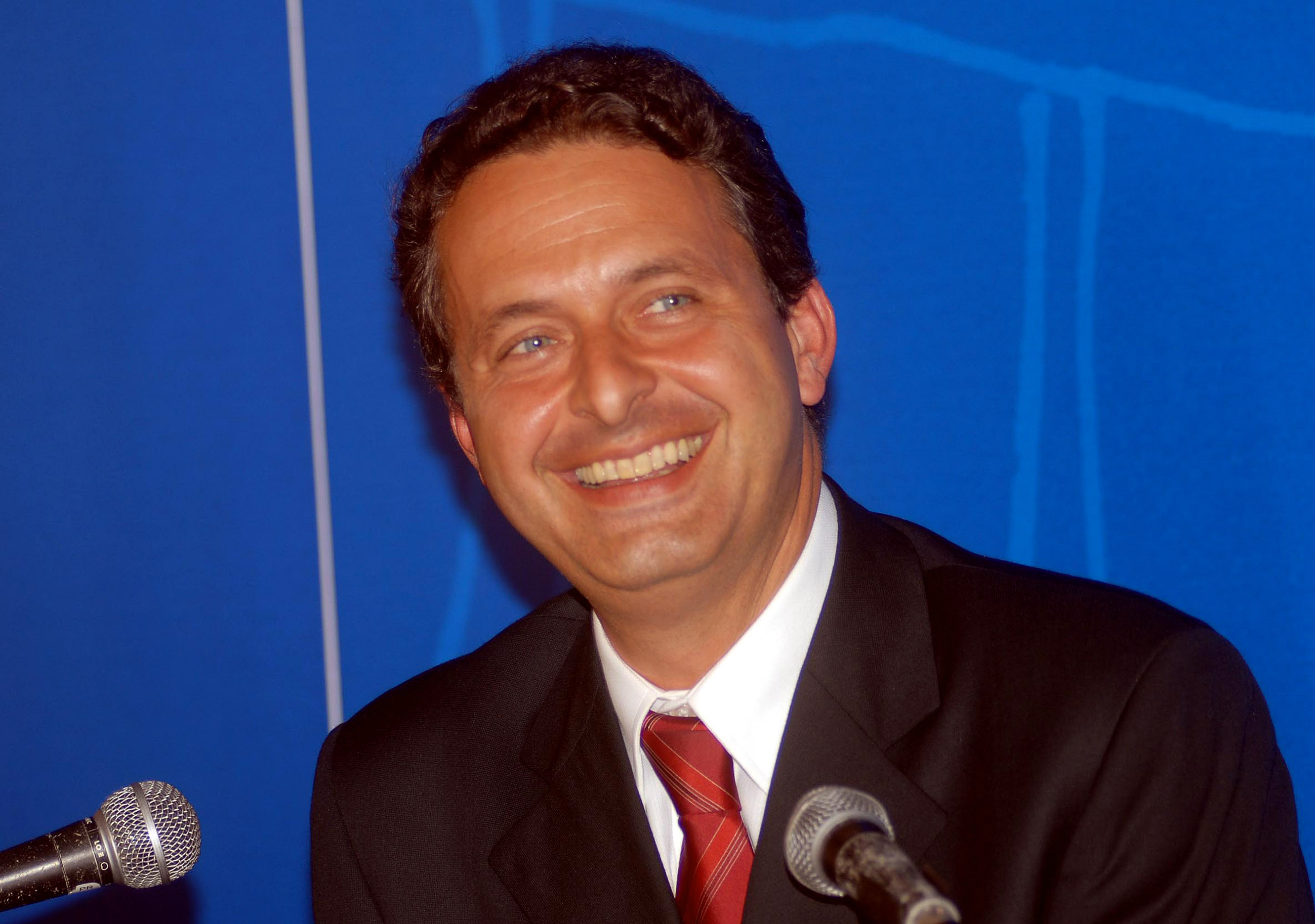 The elected governor of the Brazilian state of Pernambuco, Eduardo Campos.